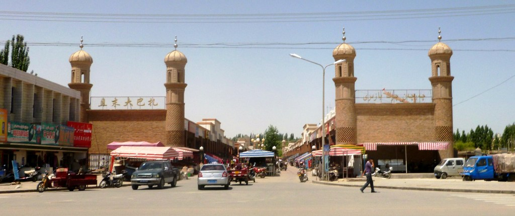 Entrance to the main bazaar in Cherchen, Xinjiang, China.